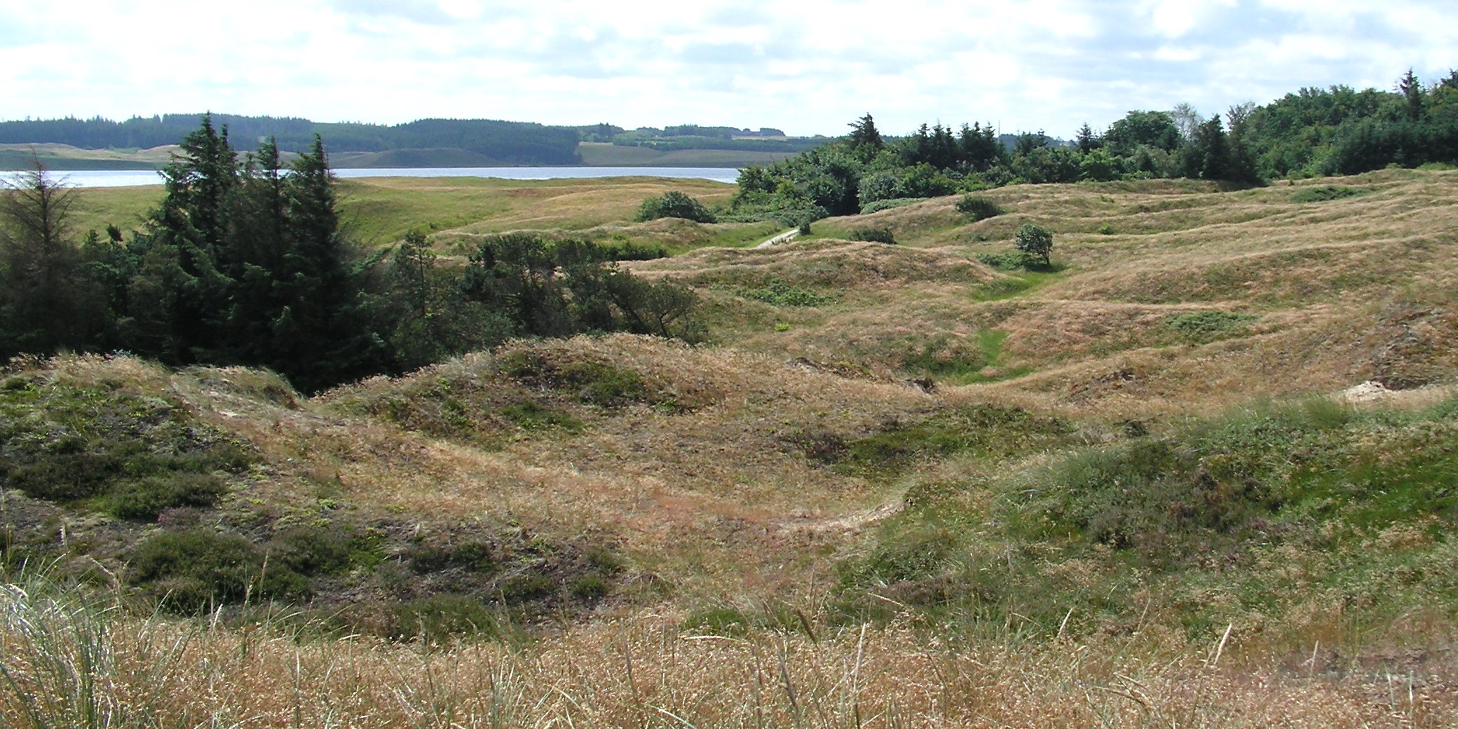 From Thy Nationalpark (Denmark). View cross the dune heaths at Hanstholm vildtreservat and Tved klitplantage.